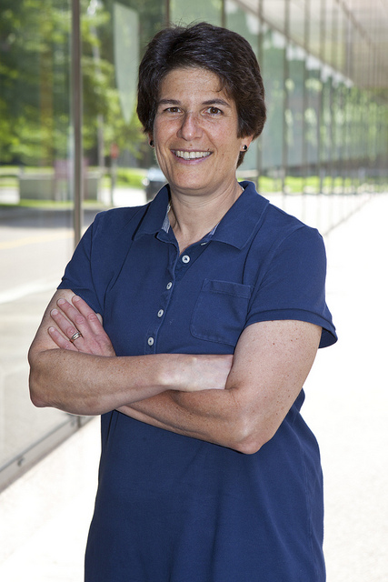 Professor Margo Seltzer taken in 2012 at Harvard John A. Paulson School of Engineering and Applied Sciences